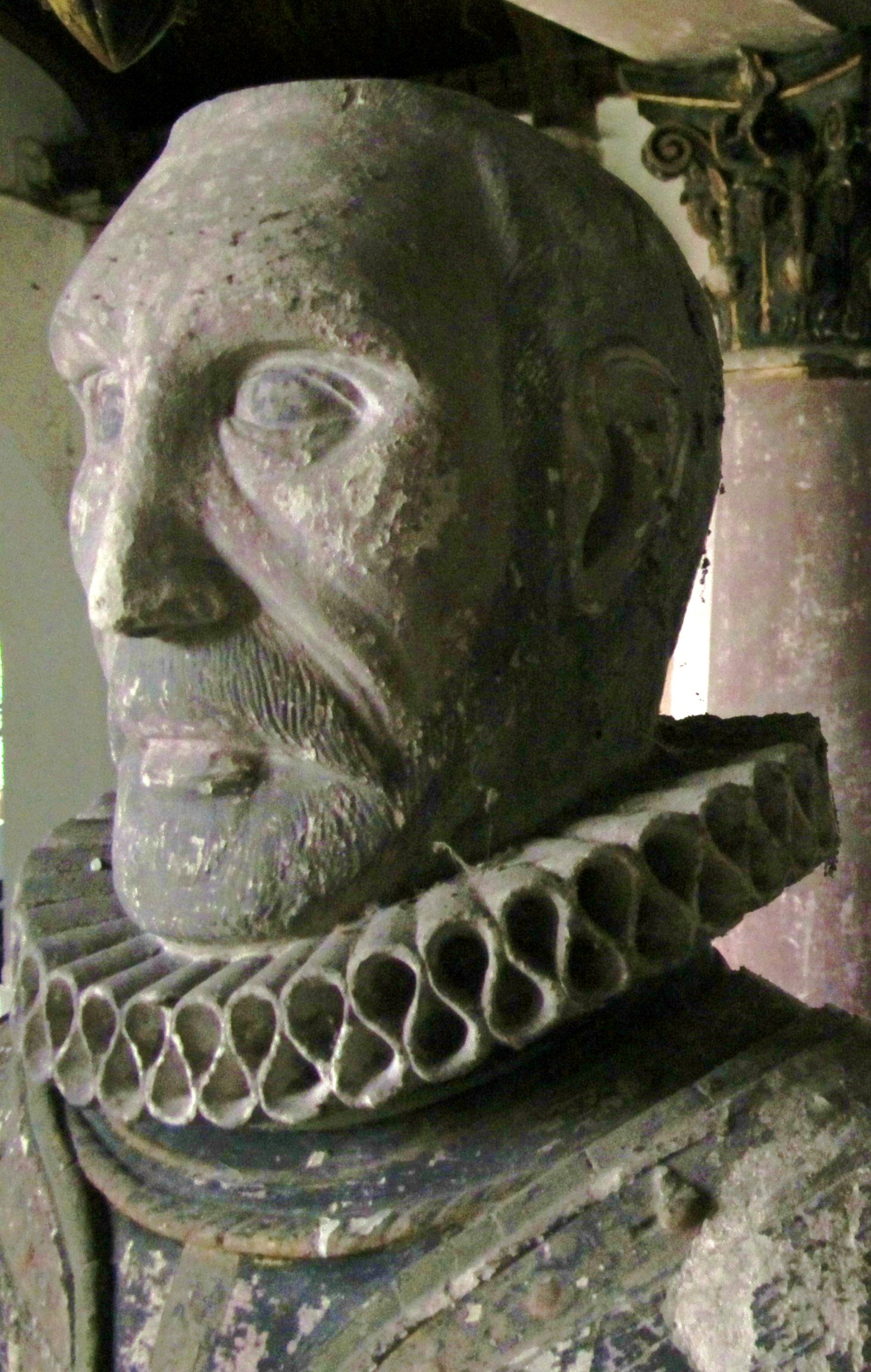 Sculpture of Sir Edward Lewkenor, from his tomb.